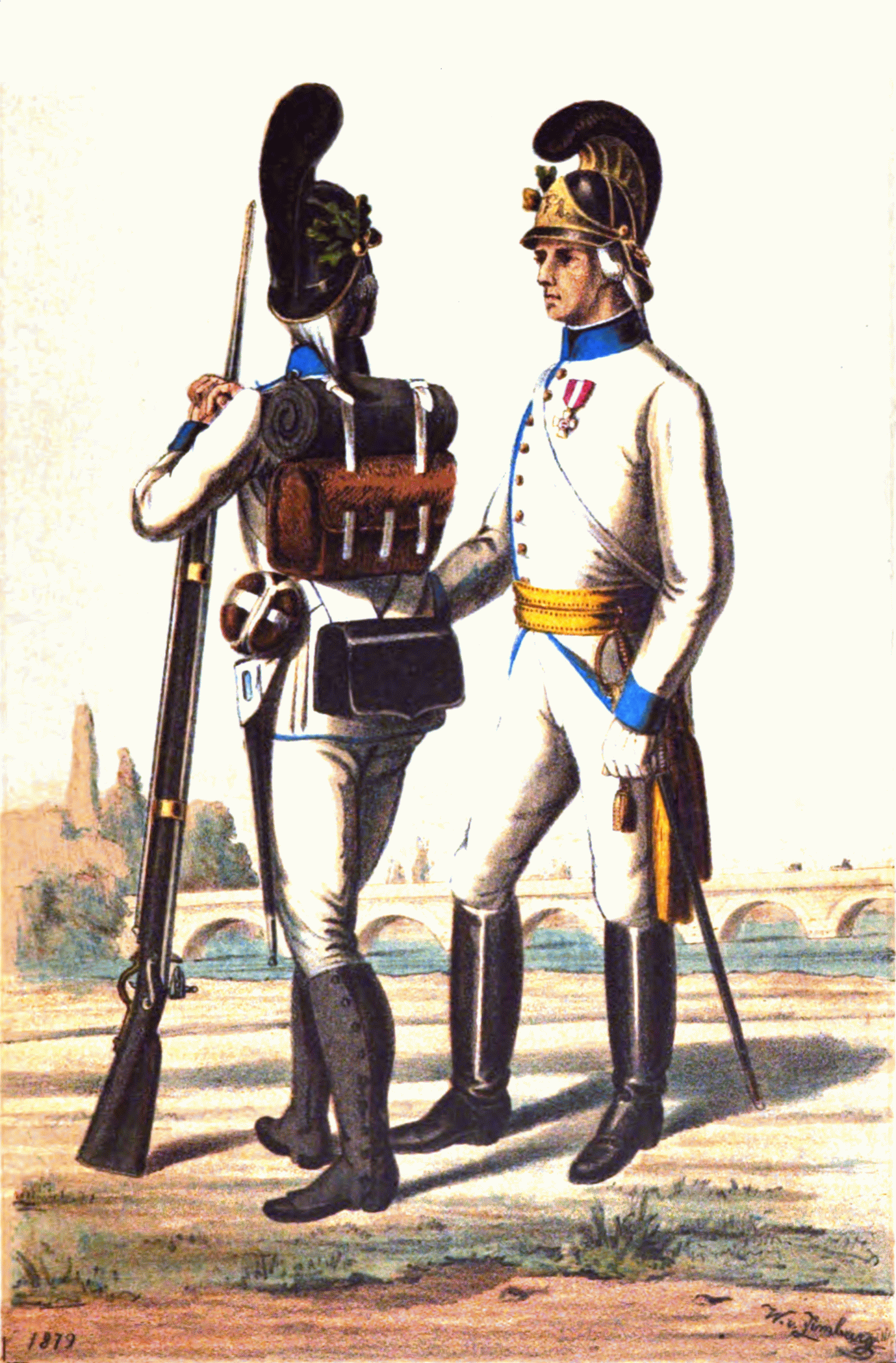 Uniform of the k.u.k./k.k. armed forces until 1918, here Gemeiner (G.I.) and Offizier (officer) – of the “Lower Austrian Infantry-Regiment Hoch- and Deutschmeister N°. 4”, 1798-1809.